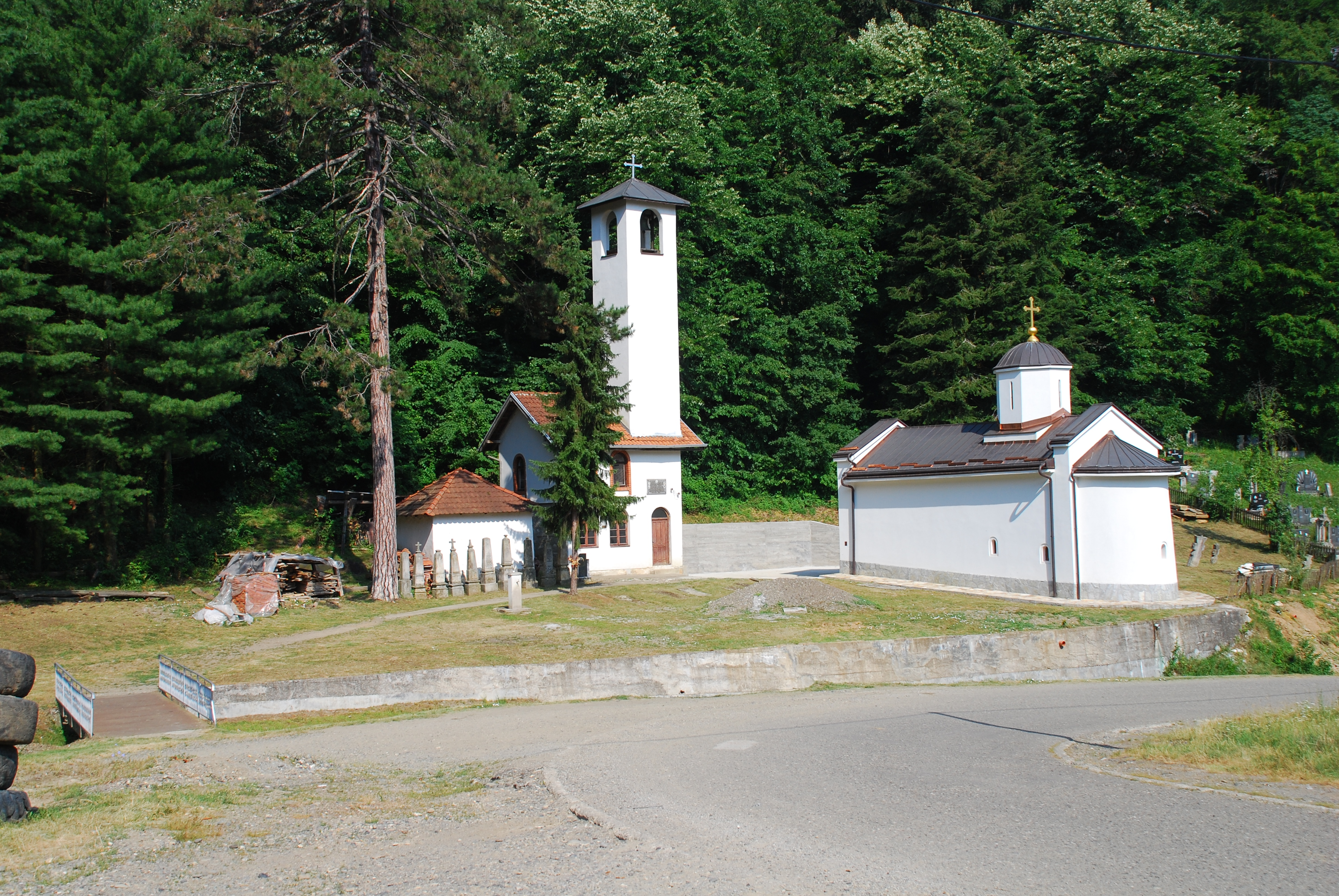 Church of Saint Sava in Gračac, Vrnjačka Banja